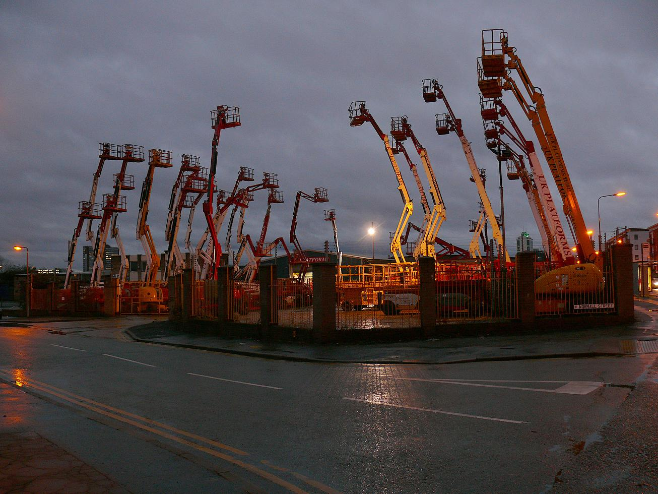 Parking yard of cherry-pickers (Manchester, United Kingdom)